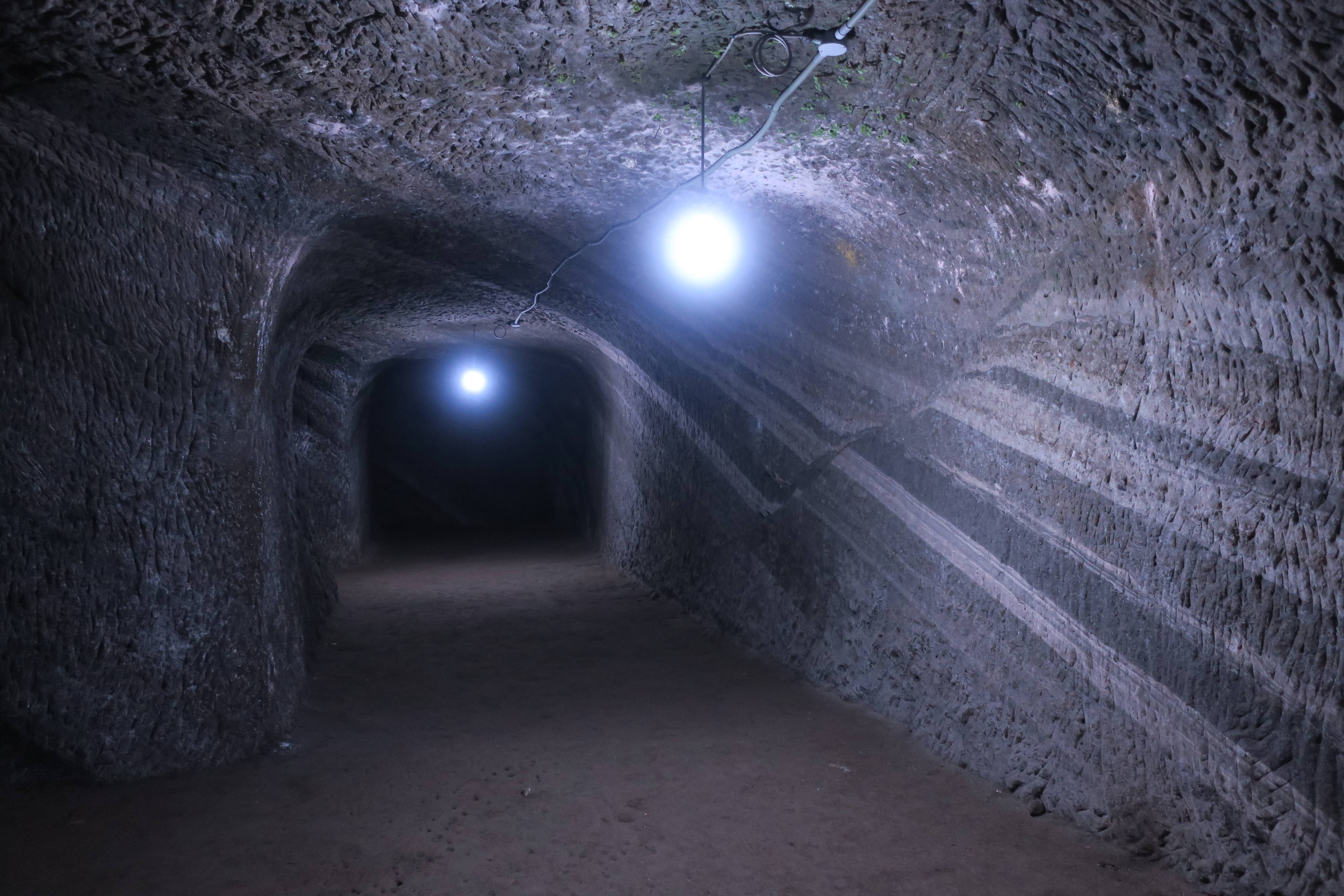 Akayama Underground Tunnels (Tateyama, Chiba).